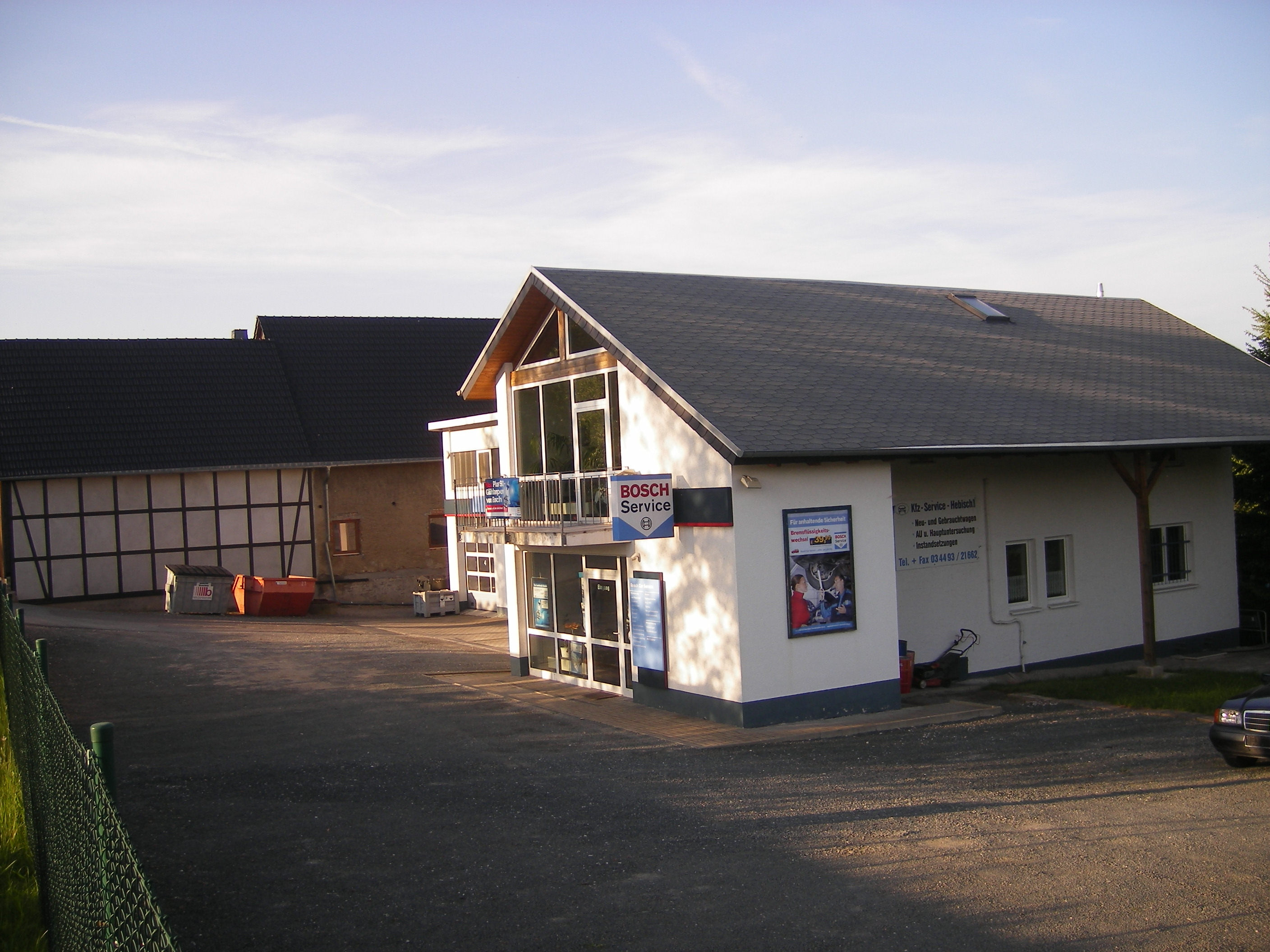 Garage in Zschöpel, a district of Ponitz near Altenburg/Thuringia (Germany)